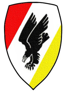 Squadron Emblem of Kampfgeschwader 30 German Luftwaffe 1939-1945